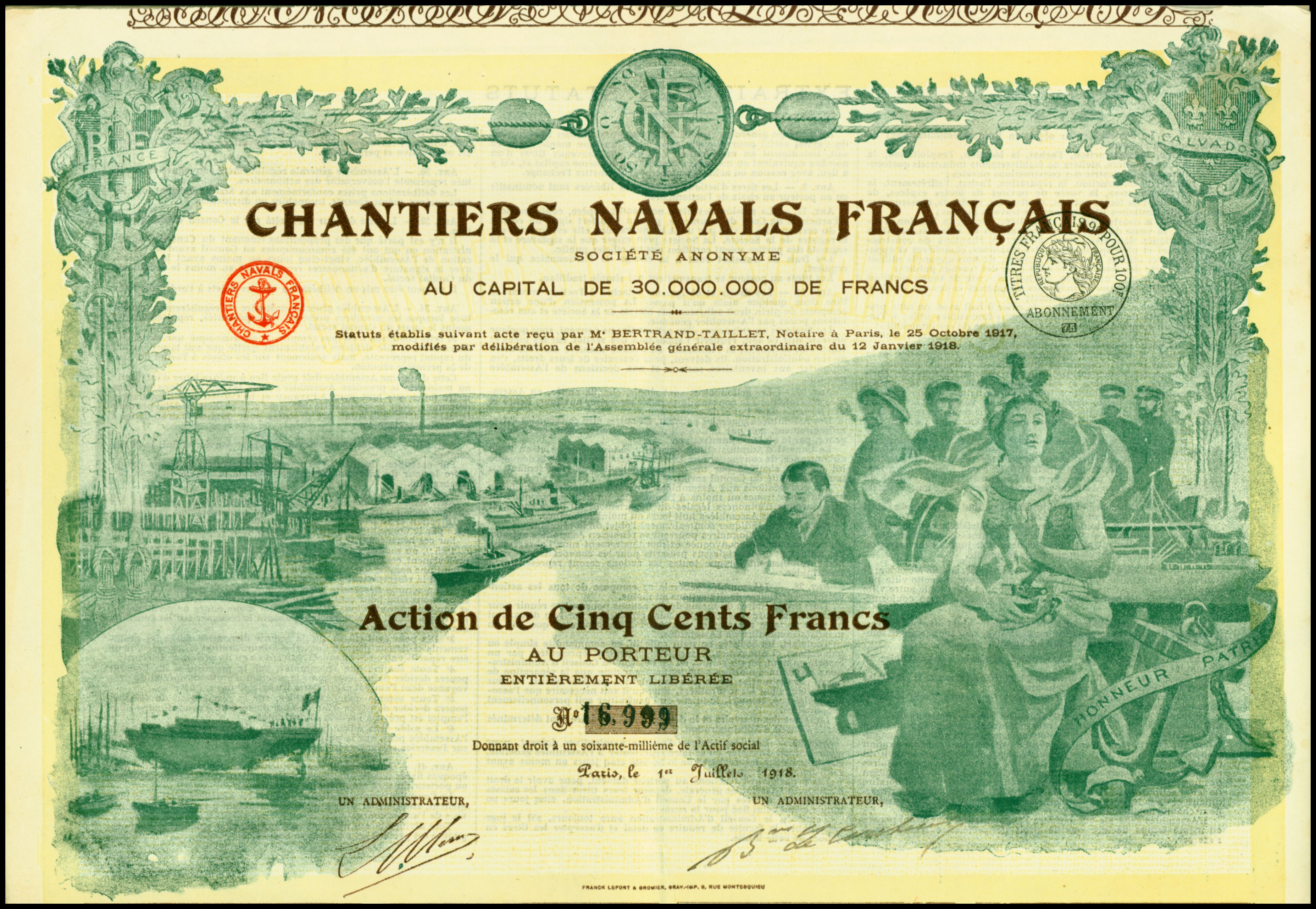 Share of the Chantiers navals français, issued 1. July 1918